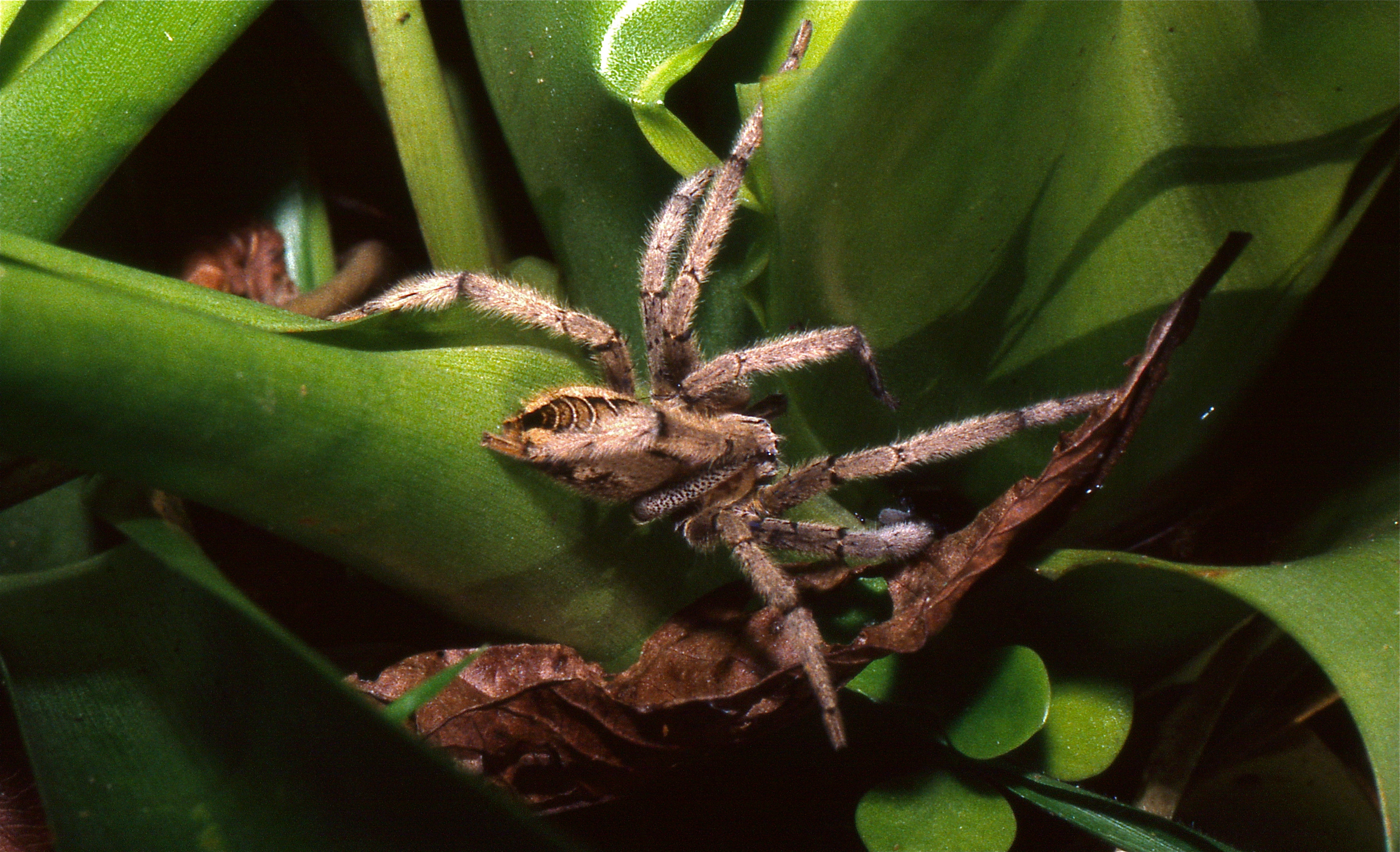 Monteverde Cloud Forest Reserve, Santa Elena, COSTA RICA Scanned Slide from January 1997